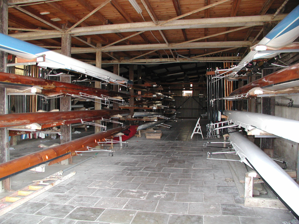 This is a picture I took August 20th, 2000 of a boathouse in Israel